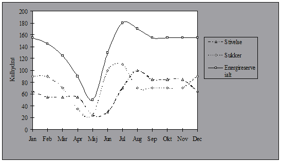 Sum of energy reserve in trees during a year. Data collected from studies of street trees in Paris during 7 years